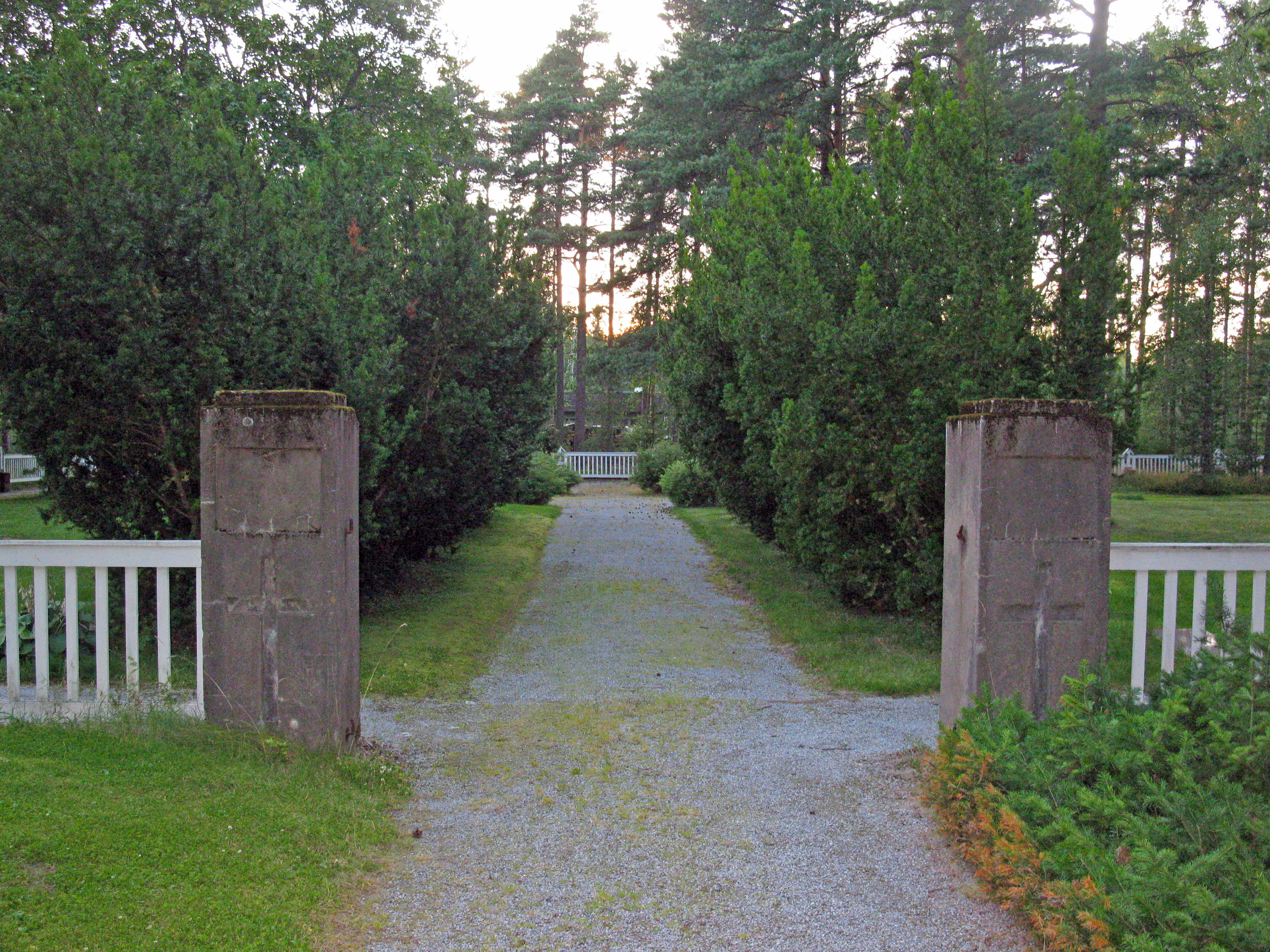 The cemetery of Halikko hospital, Halikko, Salo, Finland